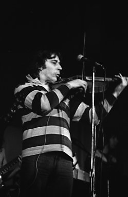 John Cale performing in 1977